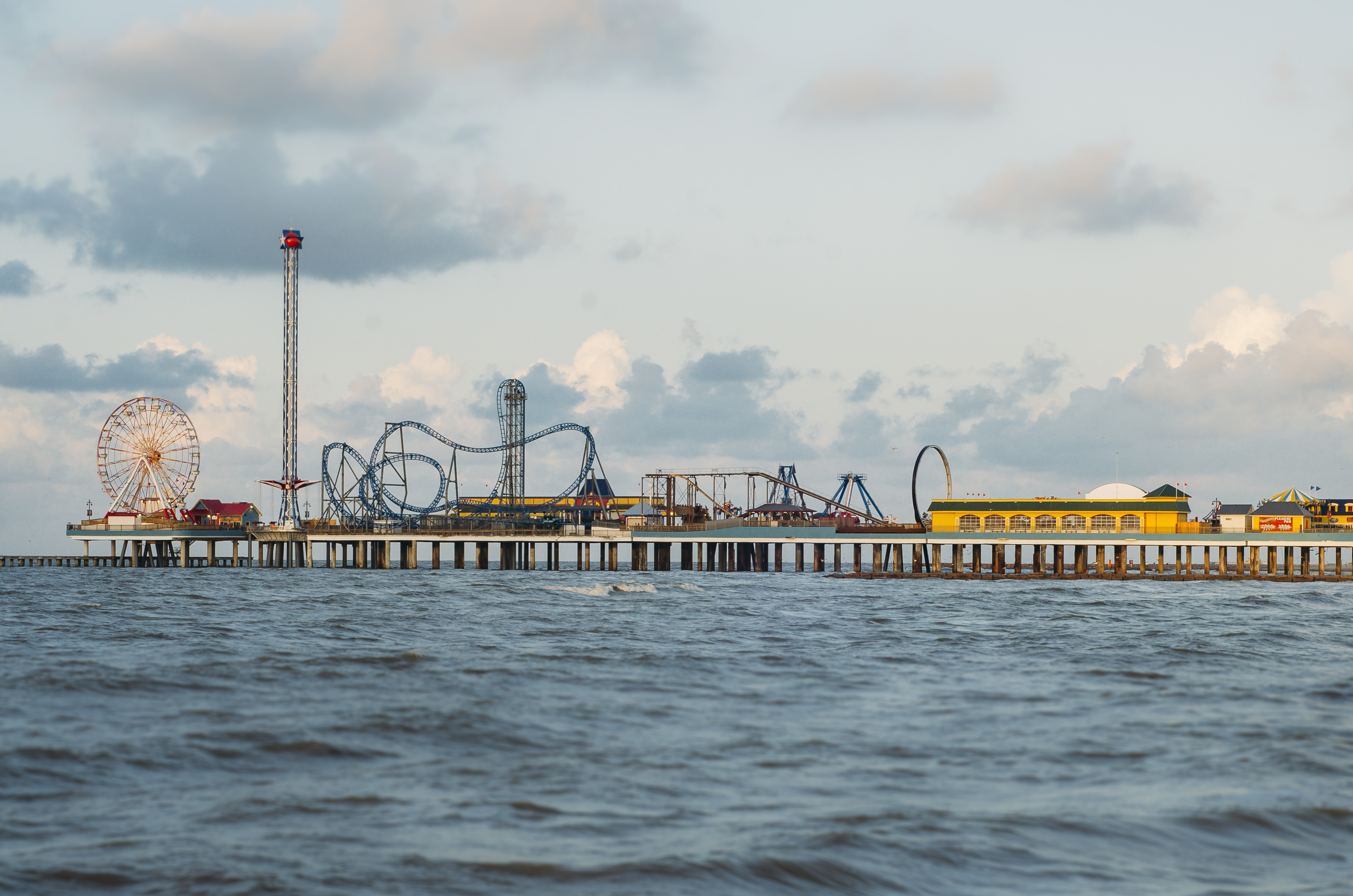 Pleasure Pier in Galveston, Texas